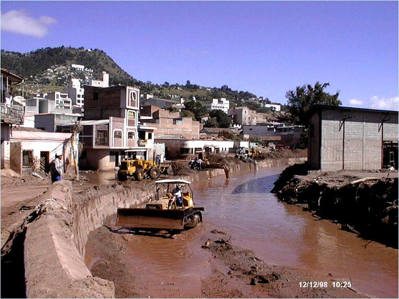 This image shows cleanup in Tegucigalpa, Honduras after Hurricane Mitch in October of 1998.